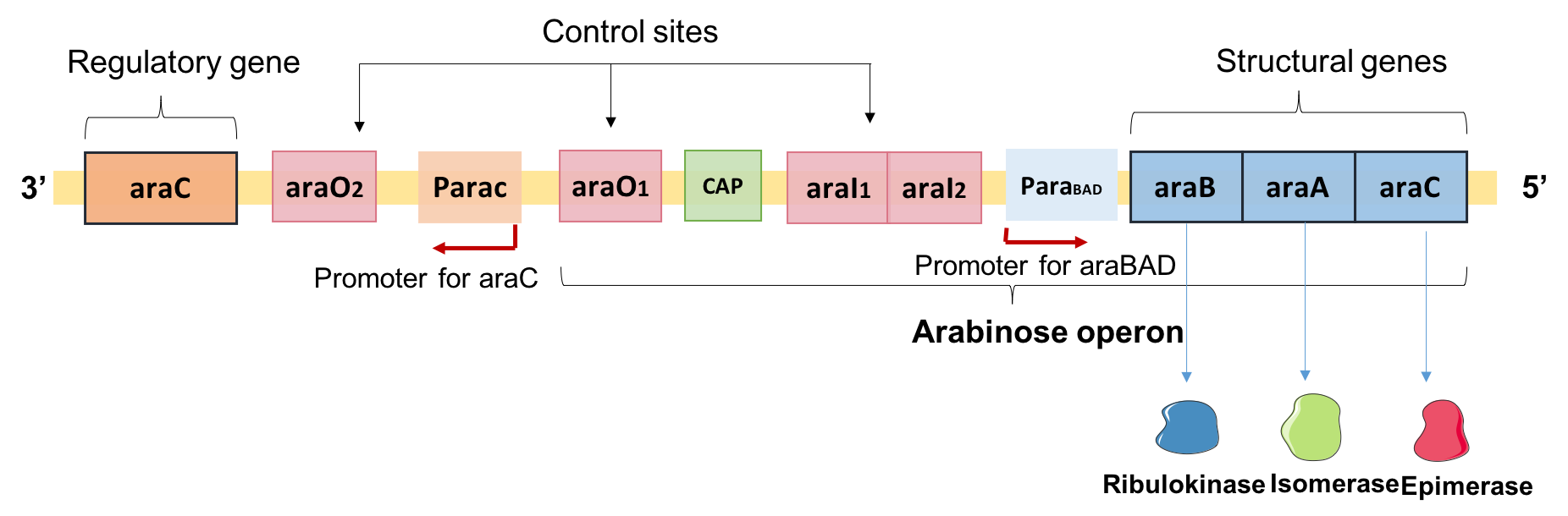 The structure of L-arabinose operon, also indicates the encoded product of structural genes.